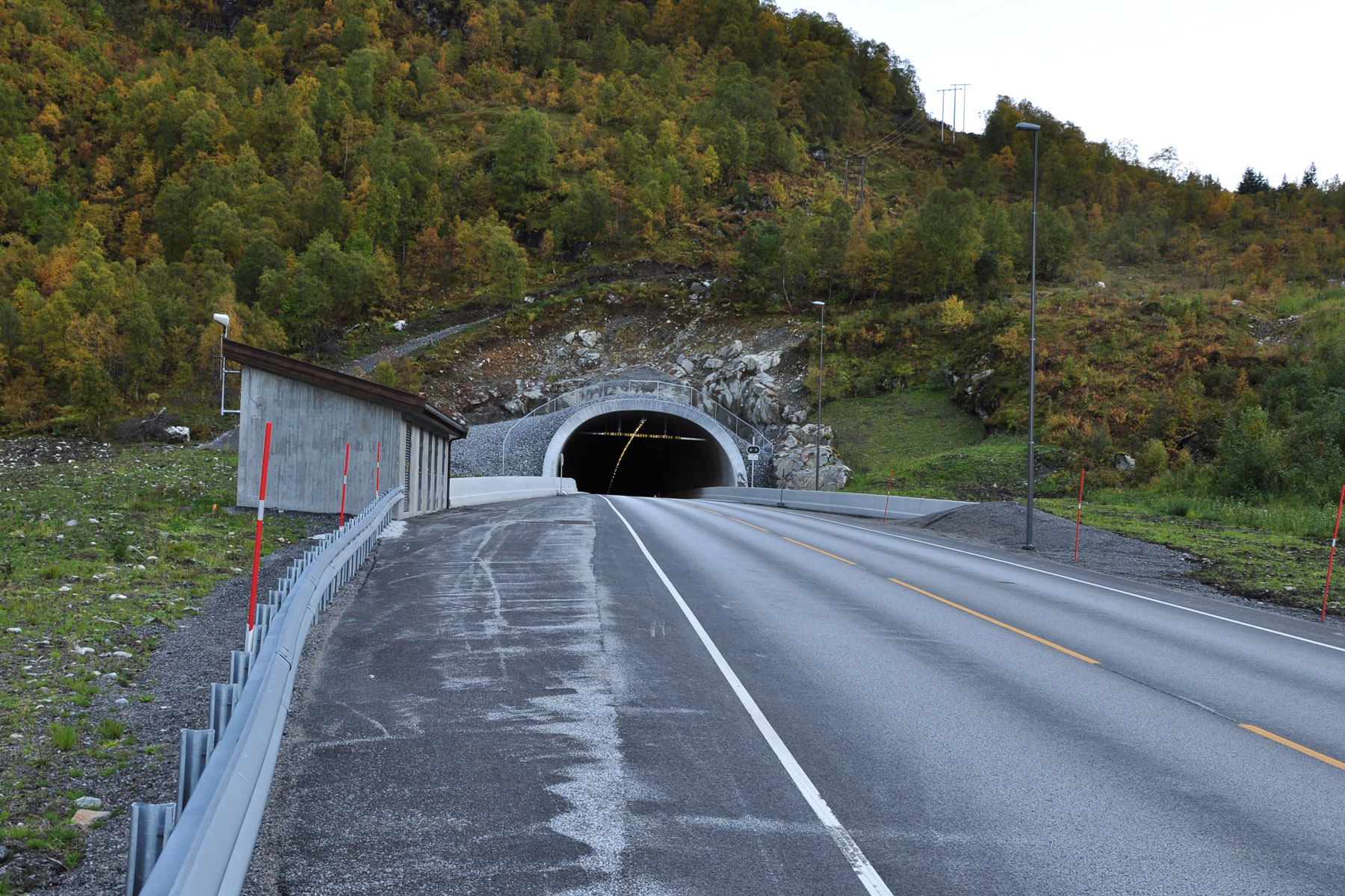 The picture shows the northern entrance to the new Ljøtunnel from Strandadalen. Next to the entrace at right, it is possible to see the outline for the old Ljønibb- og Hamregjøltunnel. This entrace was backfilled during 2017.